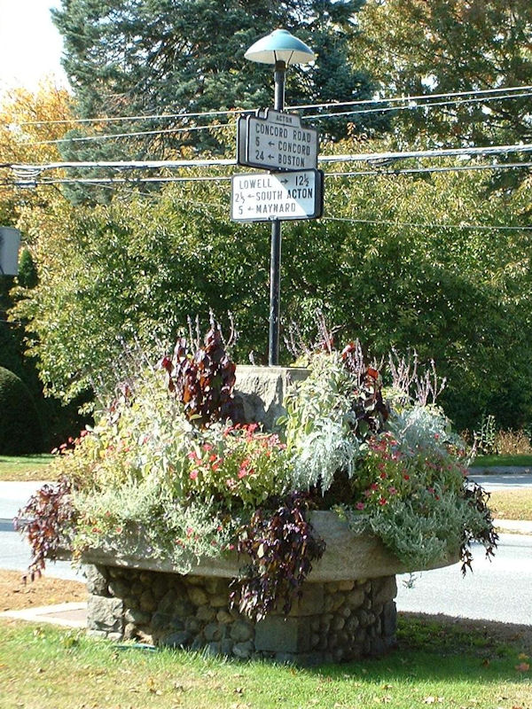 Old road signs posted in a former fountain alongside Route 27 in Acton, Massachusetts